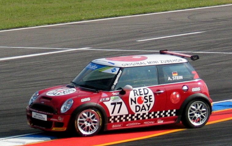 Axel Stein on the Hockenheimring 2006